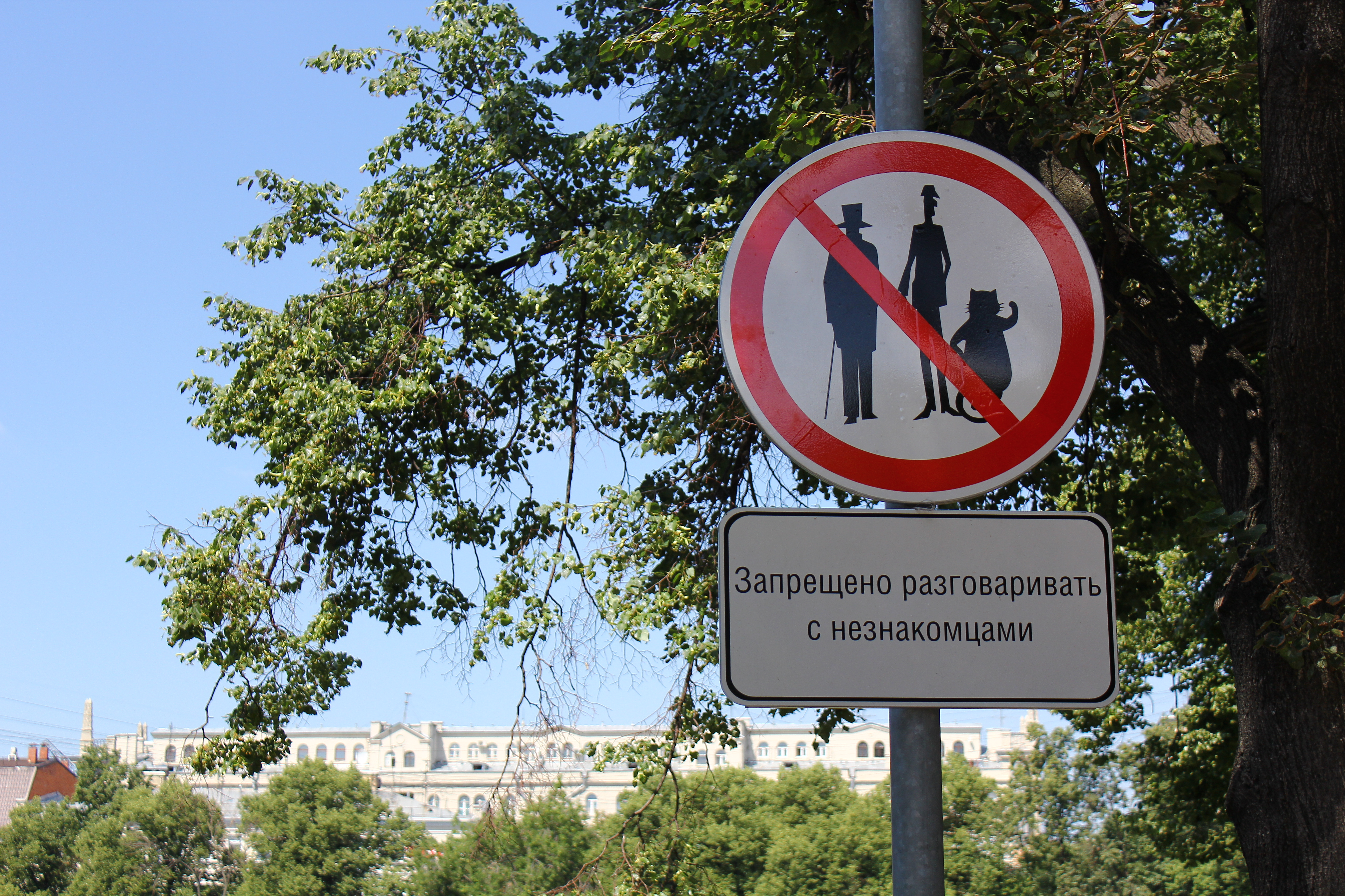 Forbidden to talk with strangers.